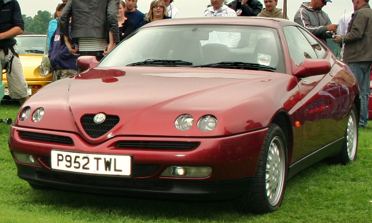 a red Alfa GTV